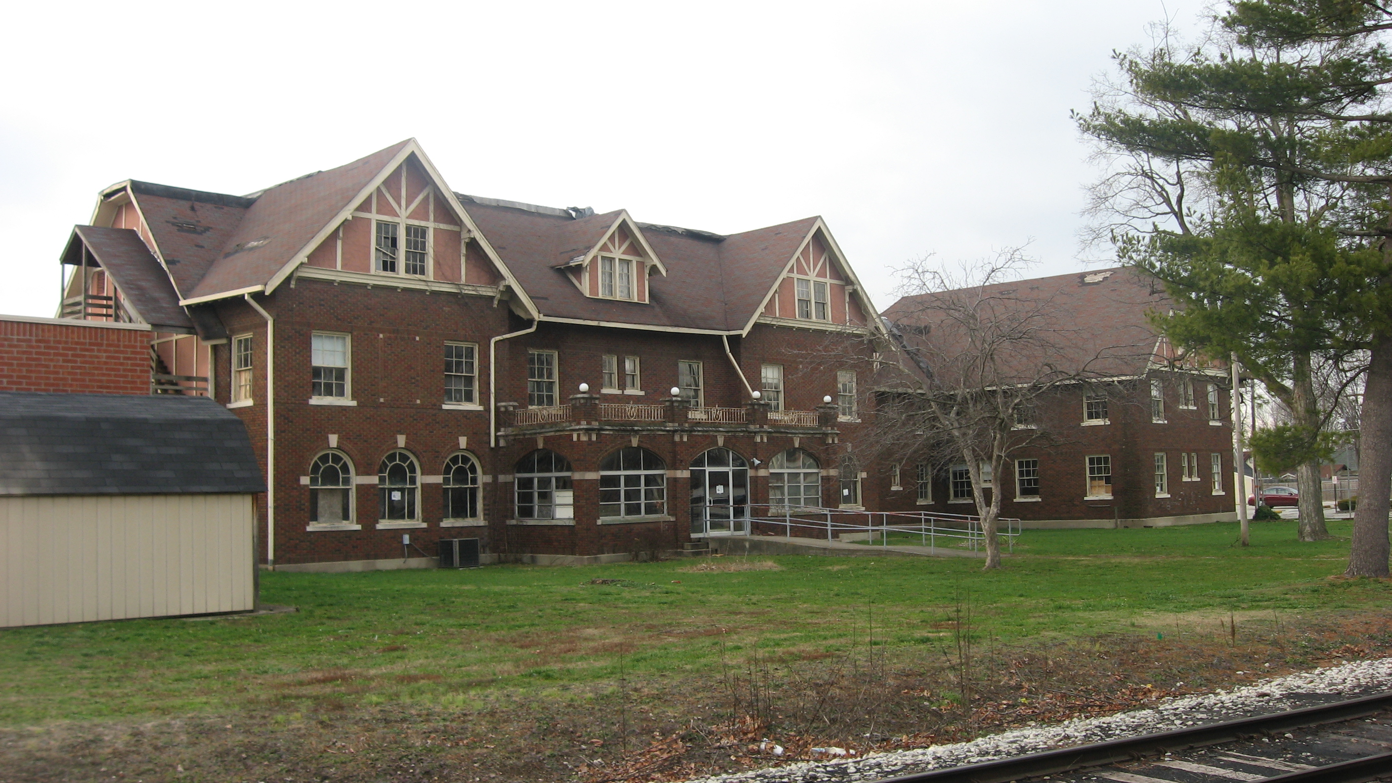 Front of the former Martinsville Sanitarium, located at 239 W. Harrison Street in Martinsville, Indiana, United States. Built in 1926, it is listed on the National Register of Historic Places.